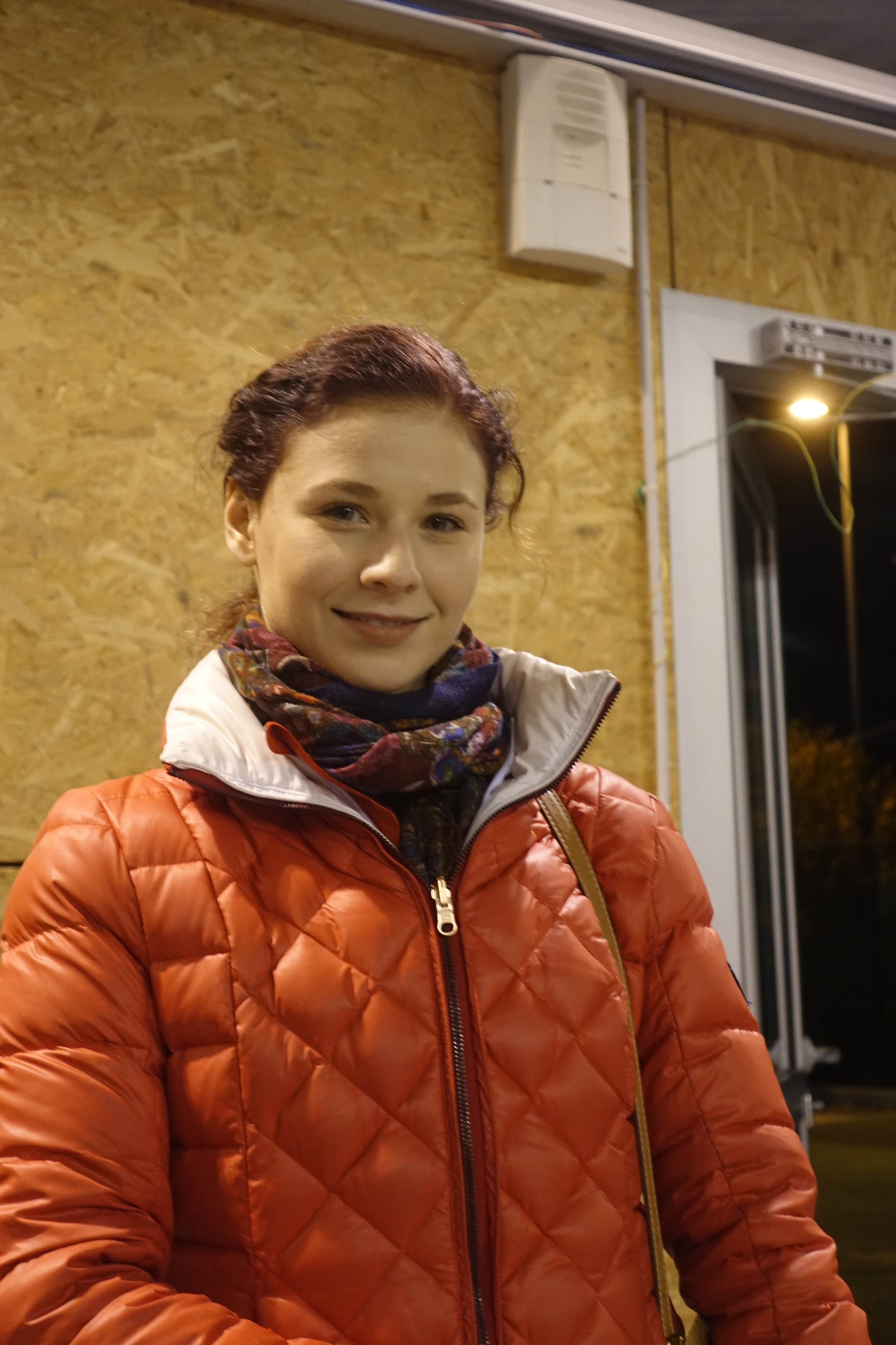 2018 Internationaux de France - French team press conference